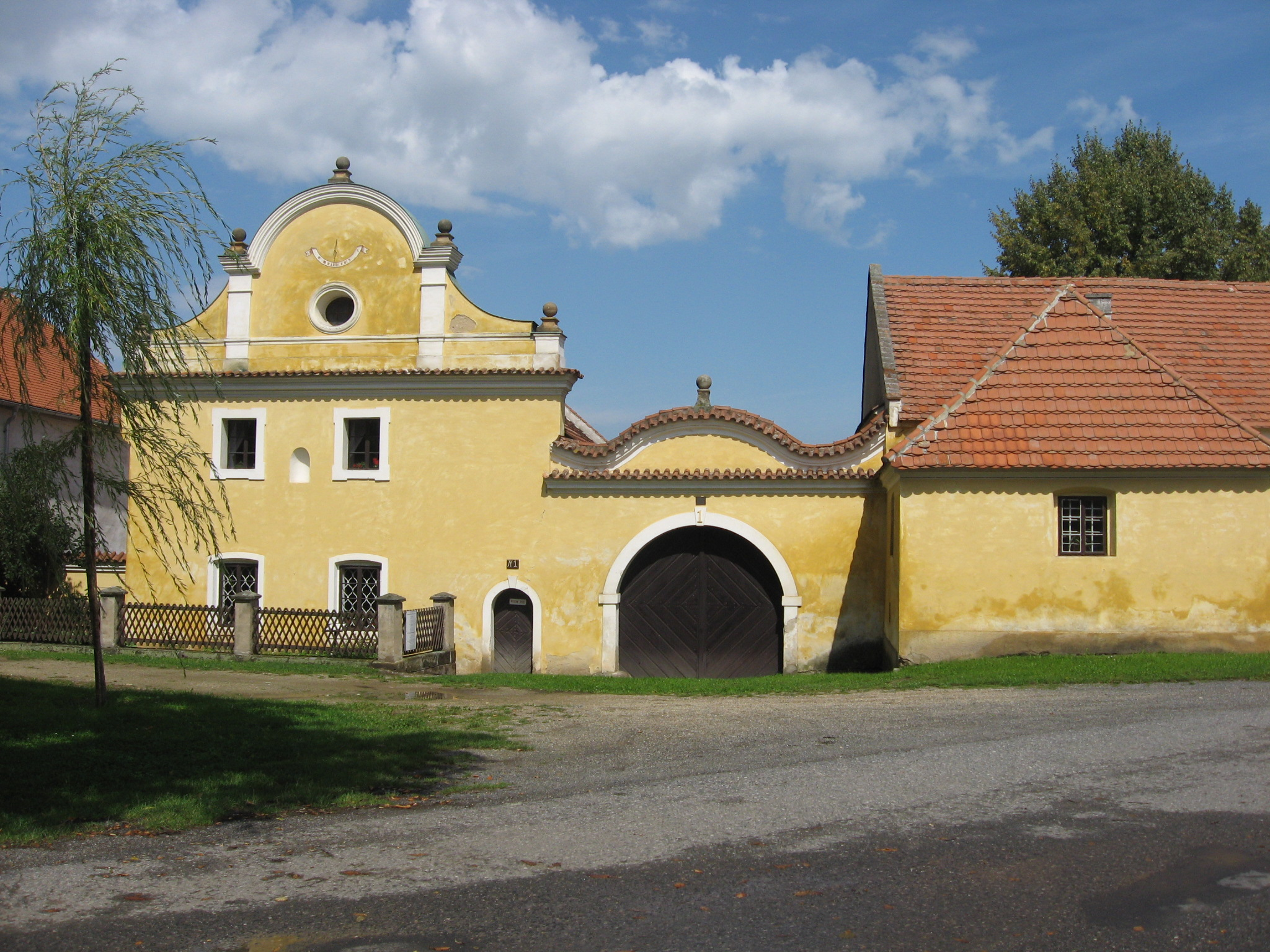 Cifkův statek (Cifka's Estate) in Třebíz, Kladno District, Czech Republic - an exposition of the Folkloristics museum of the Slaný Region